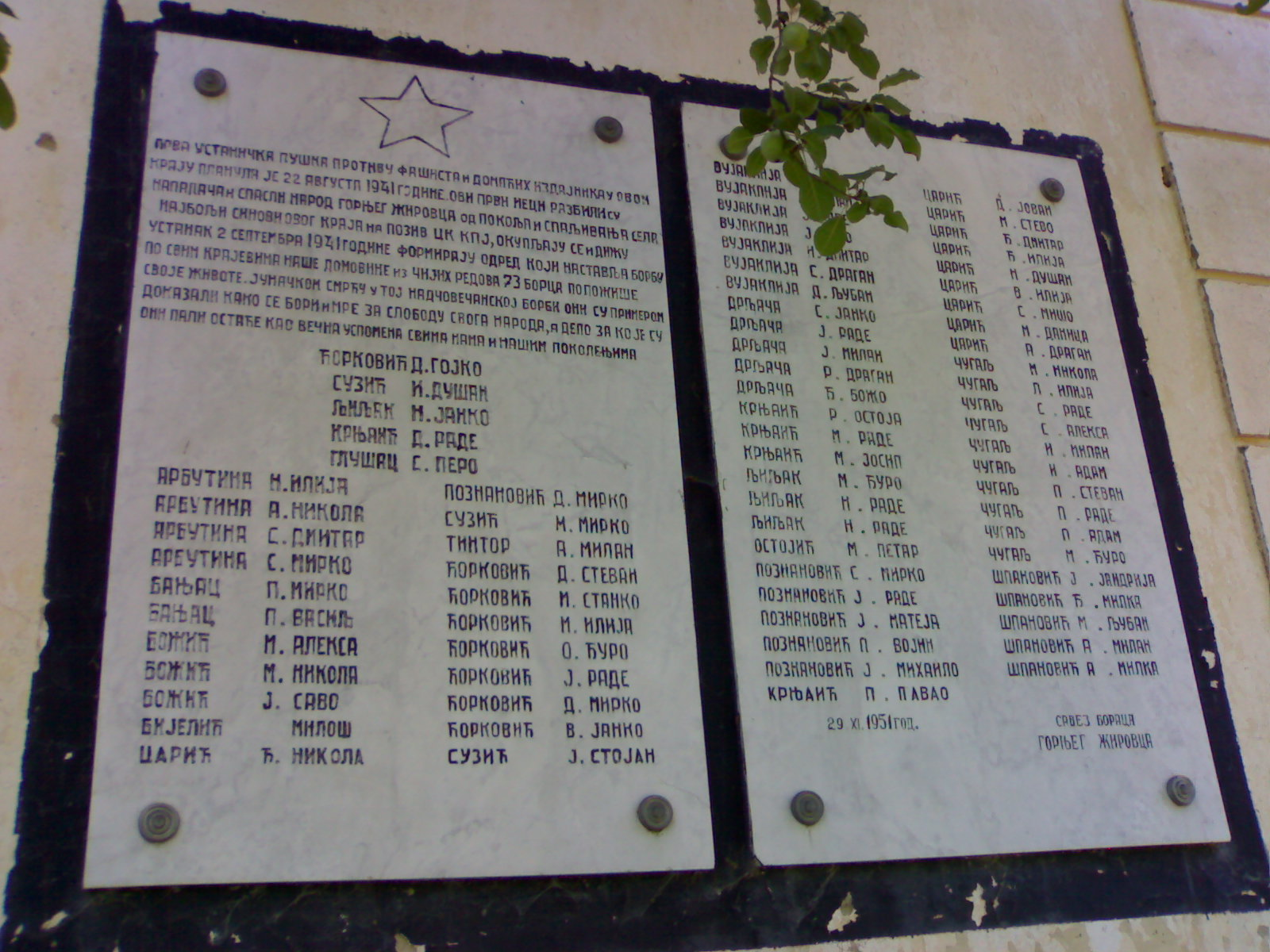 Memorial plaque with names of partisans from Gornji Žirovac, killed or missing in action during World War II. Srpskohrvatski / српскохрватски: Spomen ploča sa imenima partizana iz Gornjeg Žirovca, poginulih i nestalih u NOB-u.